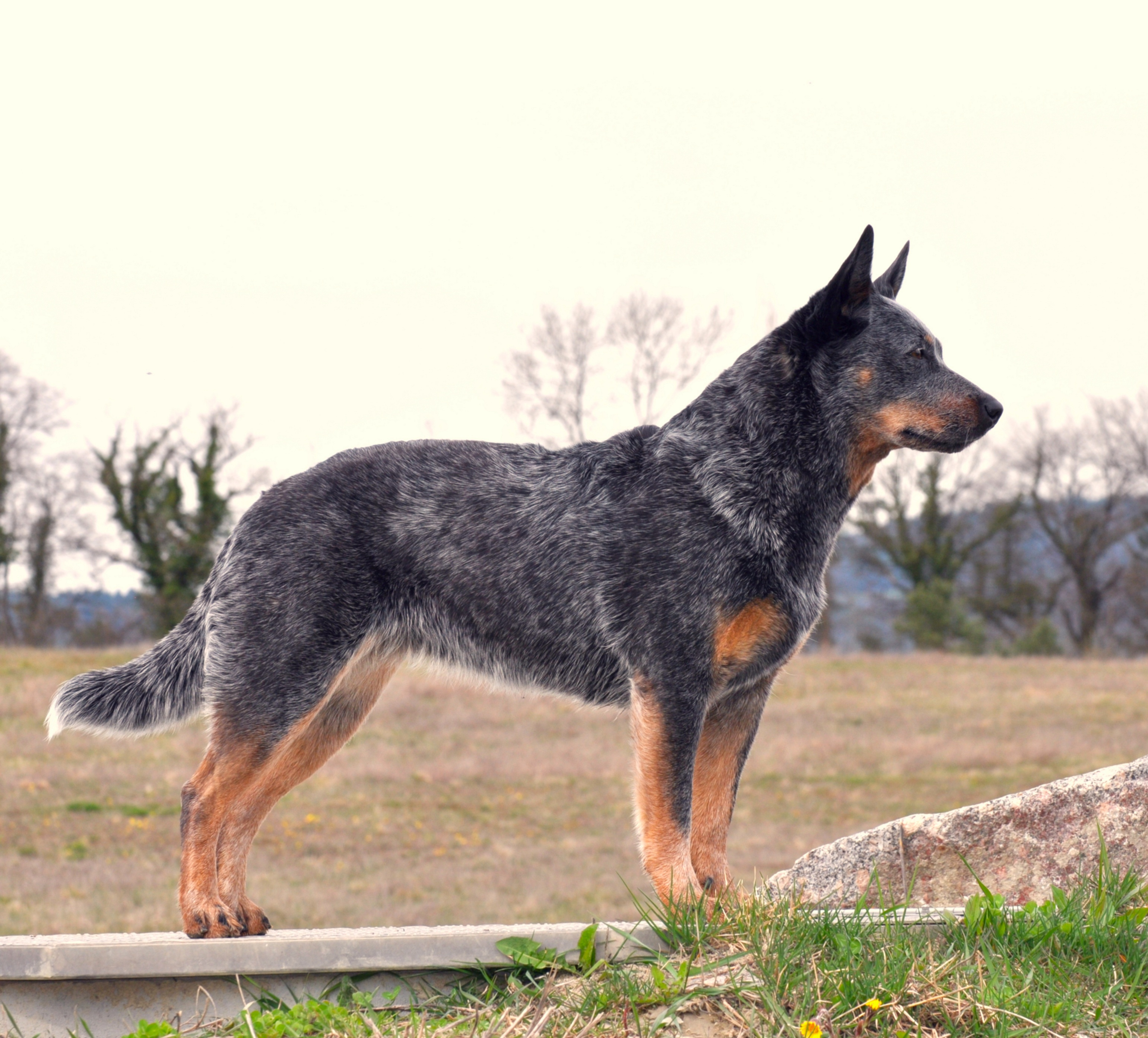 Australian Cattle Dog Multi Ch. Silverbarn's Naava - side view